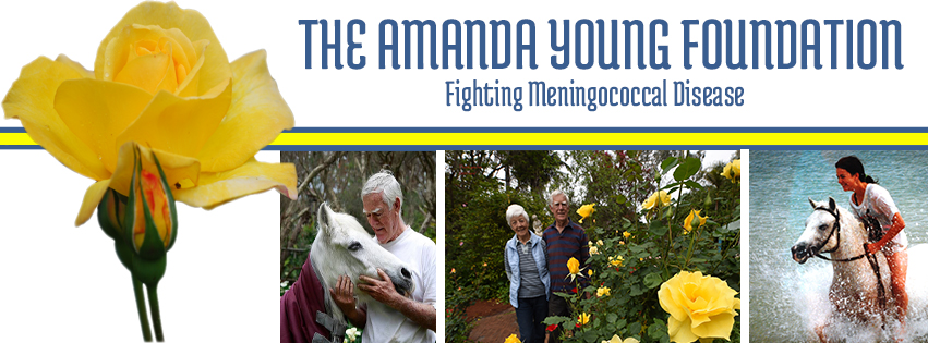 The AYF maintains an active face book page keeping up to date with activities